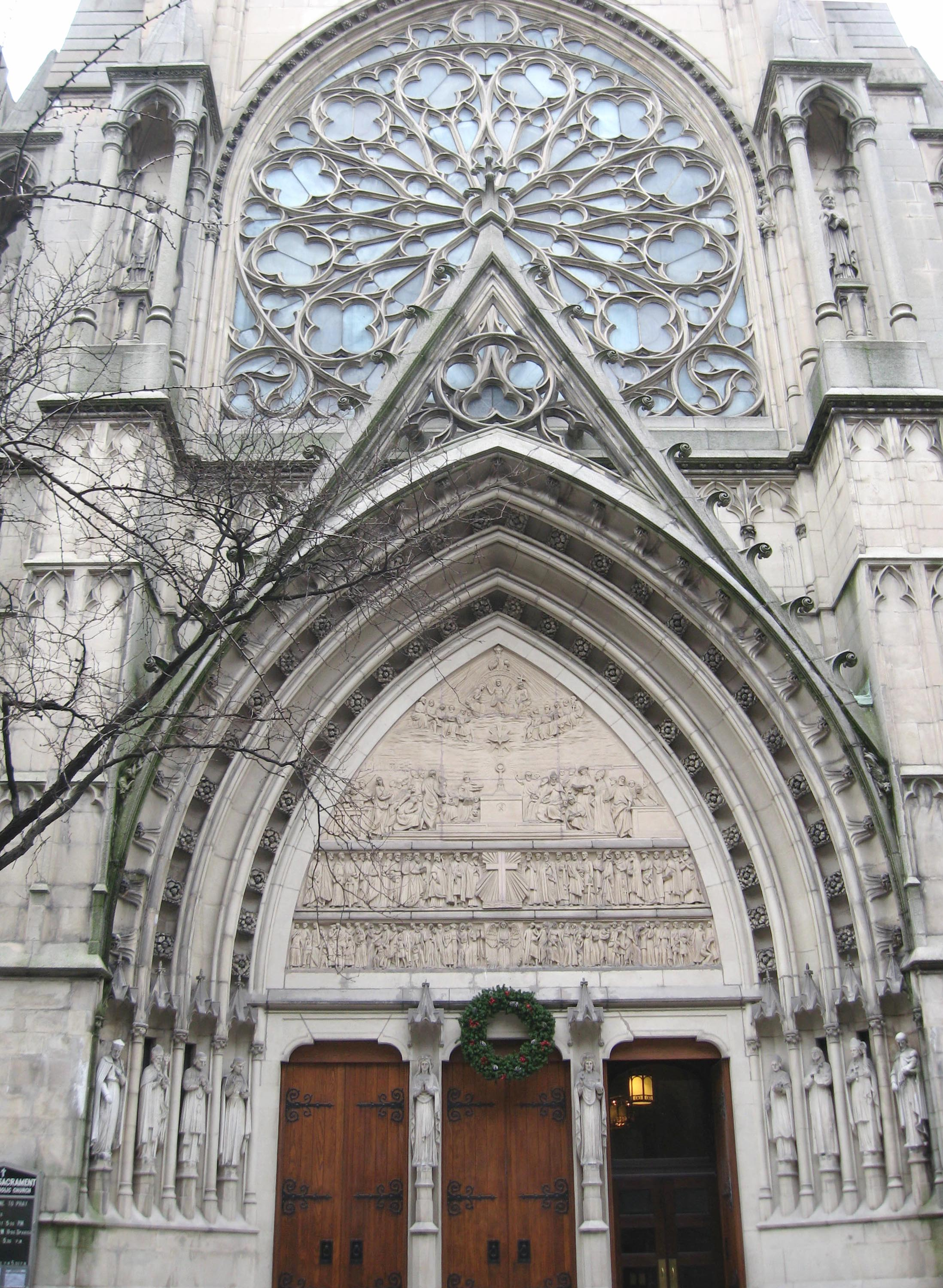 Looking south across West 71st Street at front door of Roman Catholic Church of the Blessed Sacrament on a cloudy afternoon. ZIP 10023.